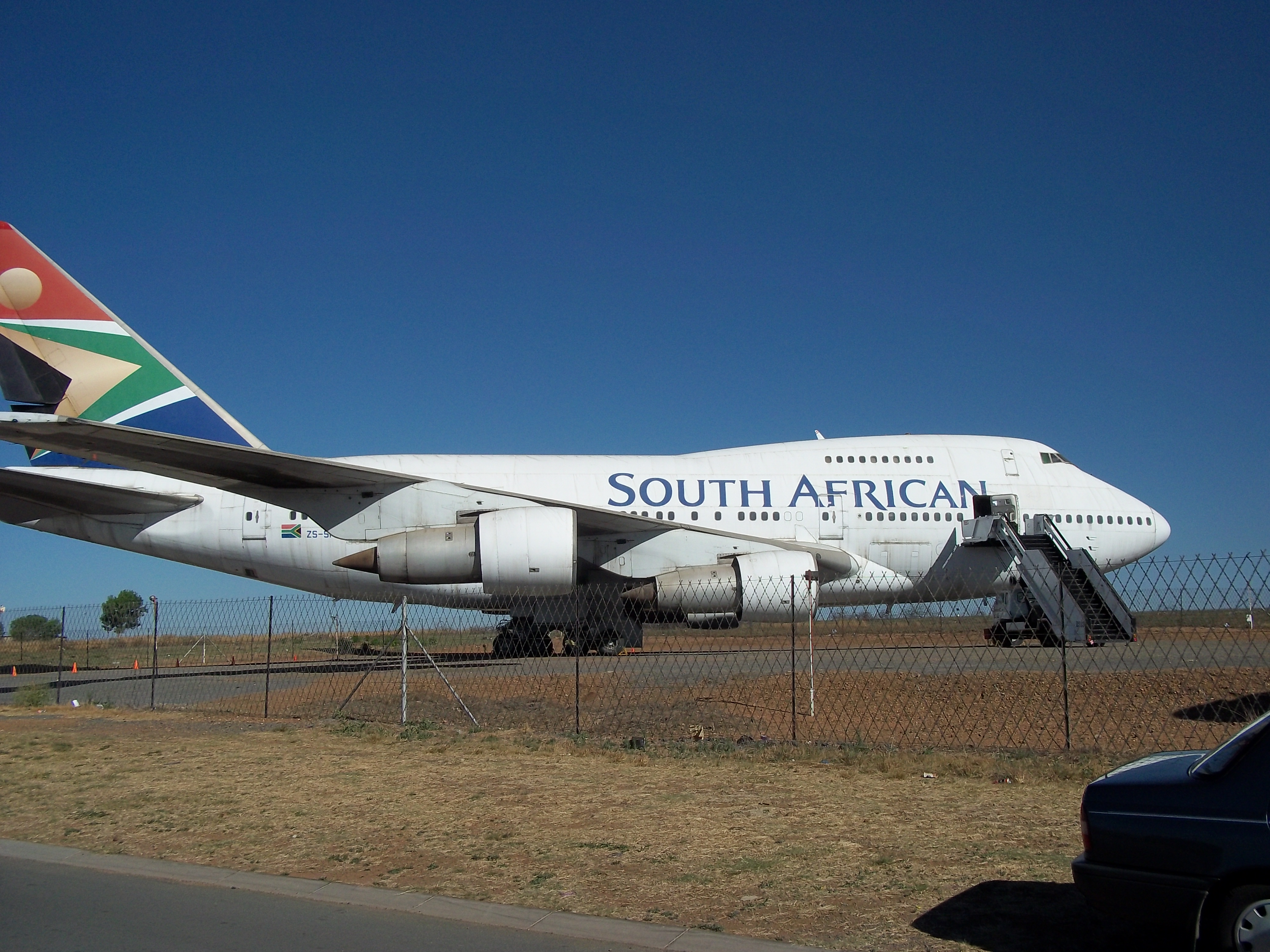 Boeing 747SP donated to the South African Airways Museum Society at Rand Airport, Germiston, South Africa. The aircraft is in the livery of South African Airways at the time of its retirement.